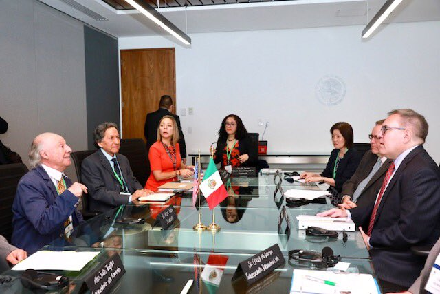 It was great to meet Sec. Toledo in Mexico City today before we kicked off the CEC. I congratulated Mexico for ratifying the USMCA, which contains some of the strongest environmental provisions ever included in a FTA, including a commitment to reduce marine litter.